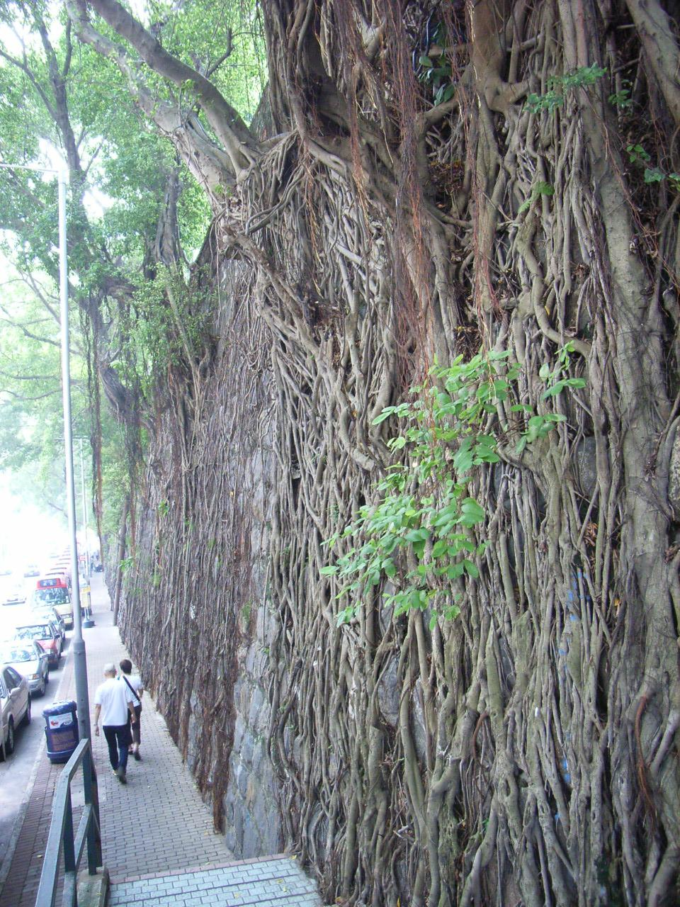 Stone wall trees, Forbes Street, 科士街, Kennedy Town, Hong Kong (By KennethTom).